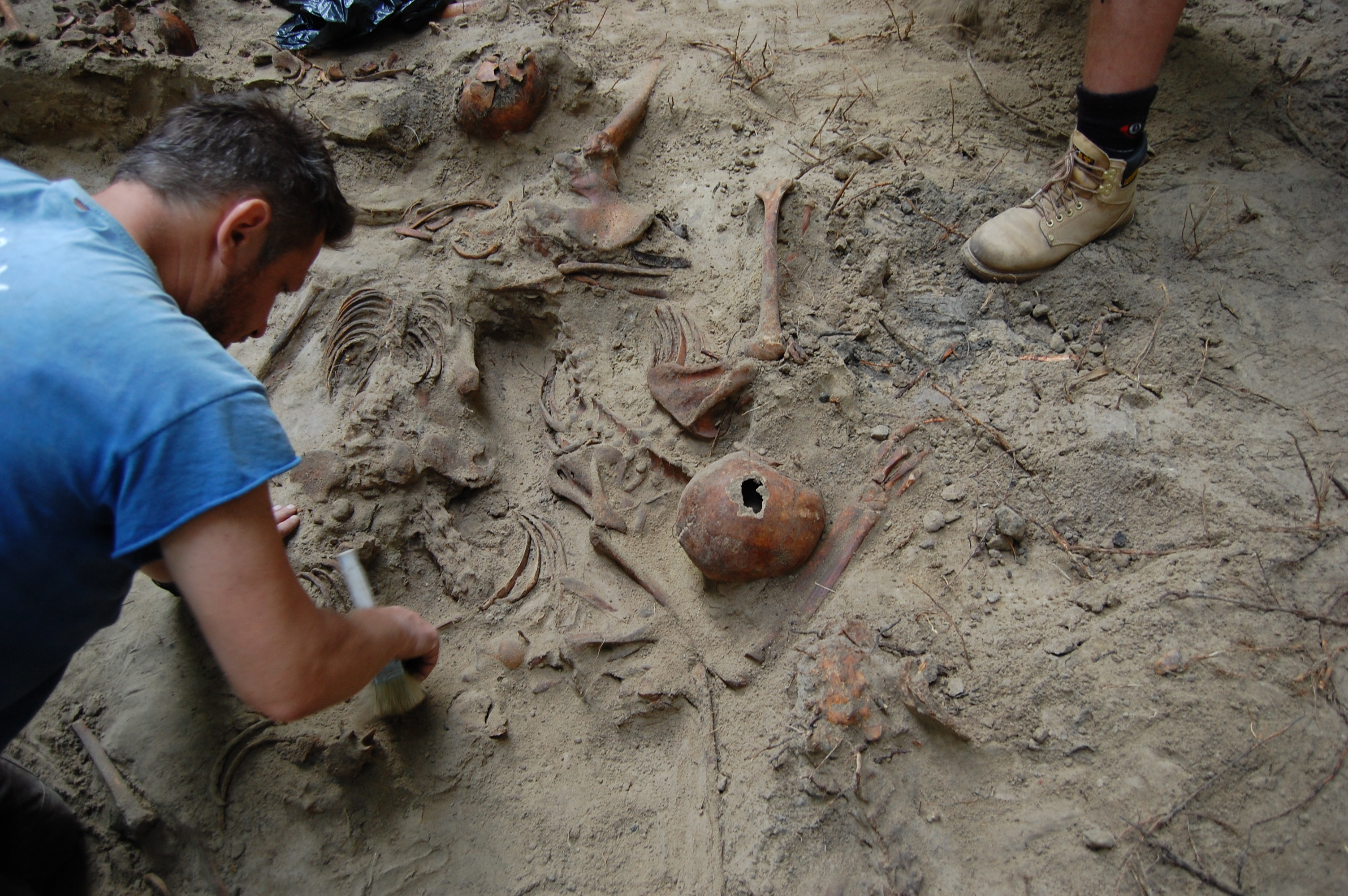 Exhumation in Gaj